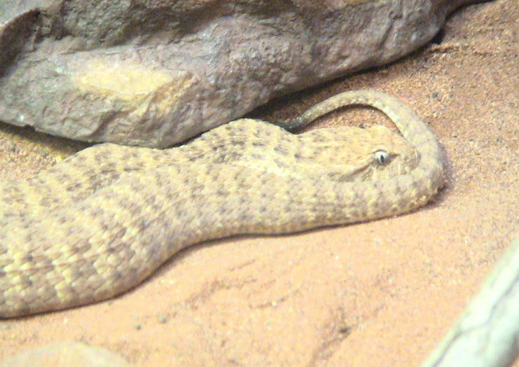 Photo depicting a Desert Death Adder taken at Taronga Zoo, Sydney